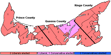 Results of the 1993 PEI general election. This election used dual member ridings. The ridings were named by number and county. for example, First Prince, Second Kings, etc. The numbers and county names are on the map. Results from elections PEI. Map created by user using map provided from elections PEI for 2000 election, edited to have the pre 2000 districts by user.